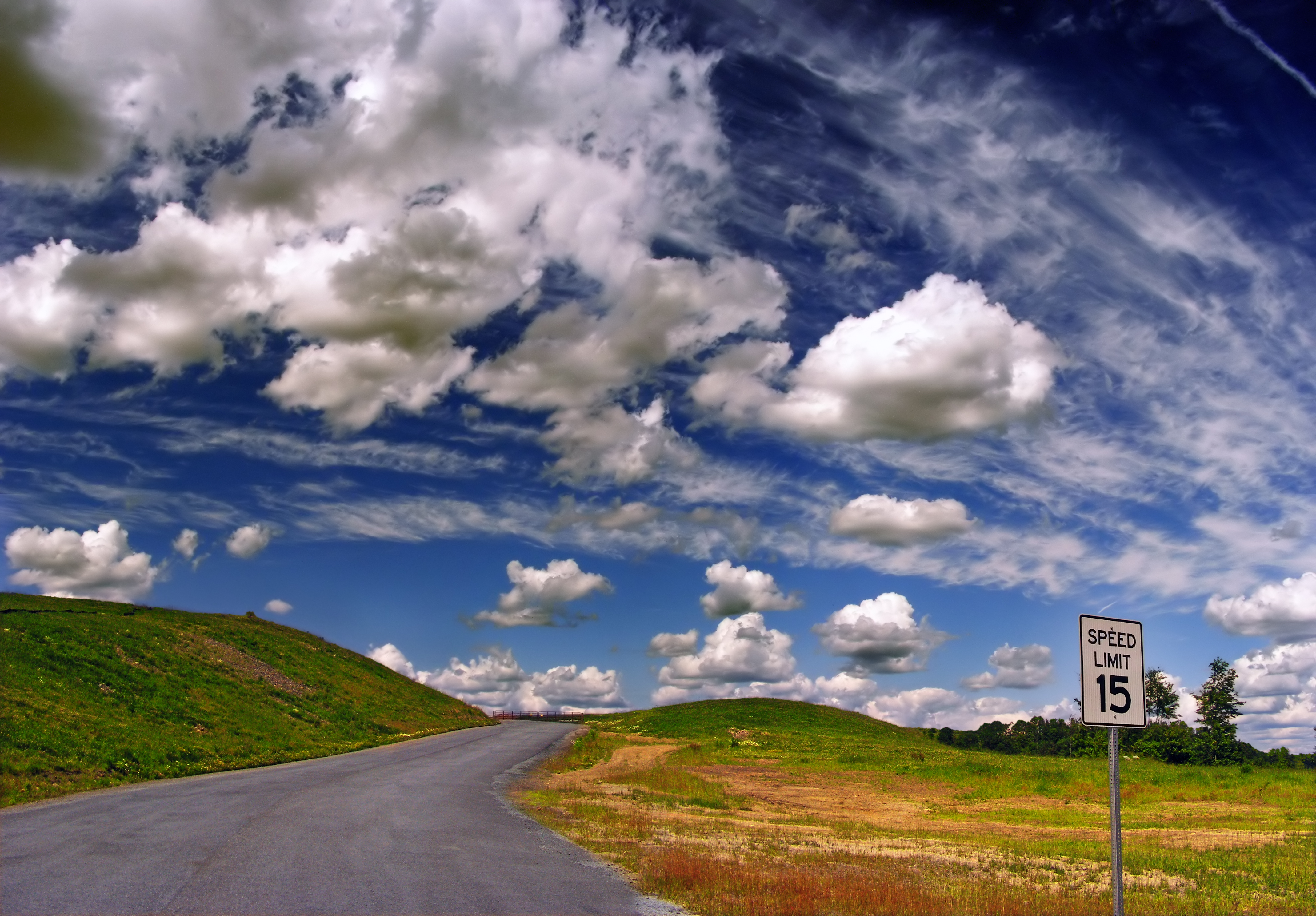 Mixed cloud formations, Karthaus Township, Clearfield County.